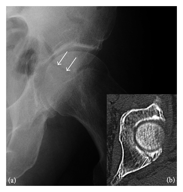 X-ray of subtle fracture through posterior acetabulum. For context, see Occult fracture